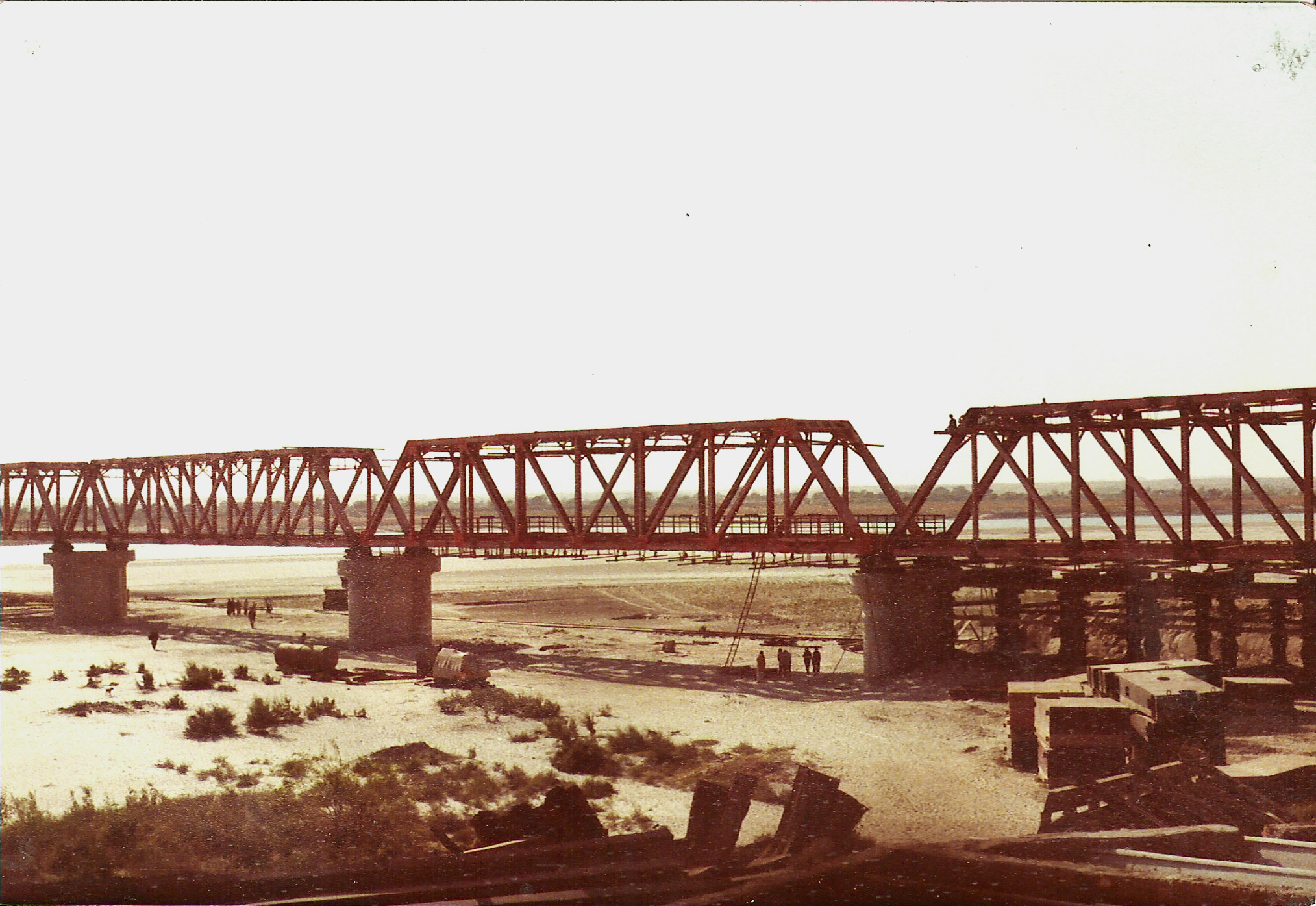 Pakistan, Railway Bridge at Hyderabat under construction